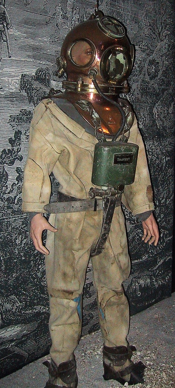 Diving equipment Draeger model DM type 20, 1936.